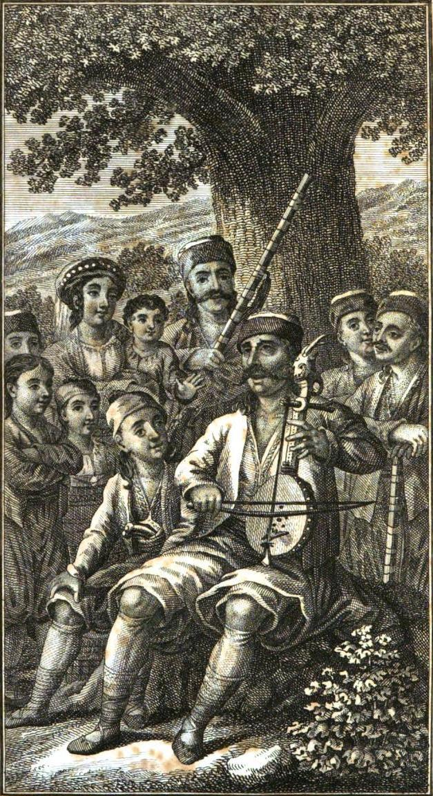 A Herzegovinian sings to the gusle. Drawing from the 2nd volume of Народне српске пјесме [Serbian Folk Poems] published by Vuk Stefanović Karadžić in Leipzig in 1823. It was made on Vuk's directions, and it is thought that the face of the gusle player is Vuk Karadžić's.[1] Srpskohrvatski / српскохрватски: Hercegovac pjeva uz gusle ↑ Vojislav M. Jovanović ((Please provide a date)) O liku Filipa Višnjića i drugih guslara Vukova vremena[1]: “Naslovna slika uz Vukove Srpske narodne pesme knj. II, Lajpcig; 1823. Bakrorez. - Rađeno po Vukovim uputstvima. Misli se da lik guslara predstavlja Vuka Karadžića.”